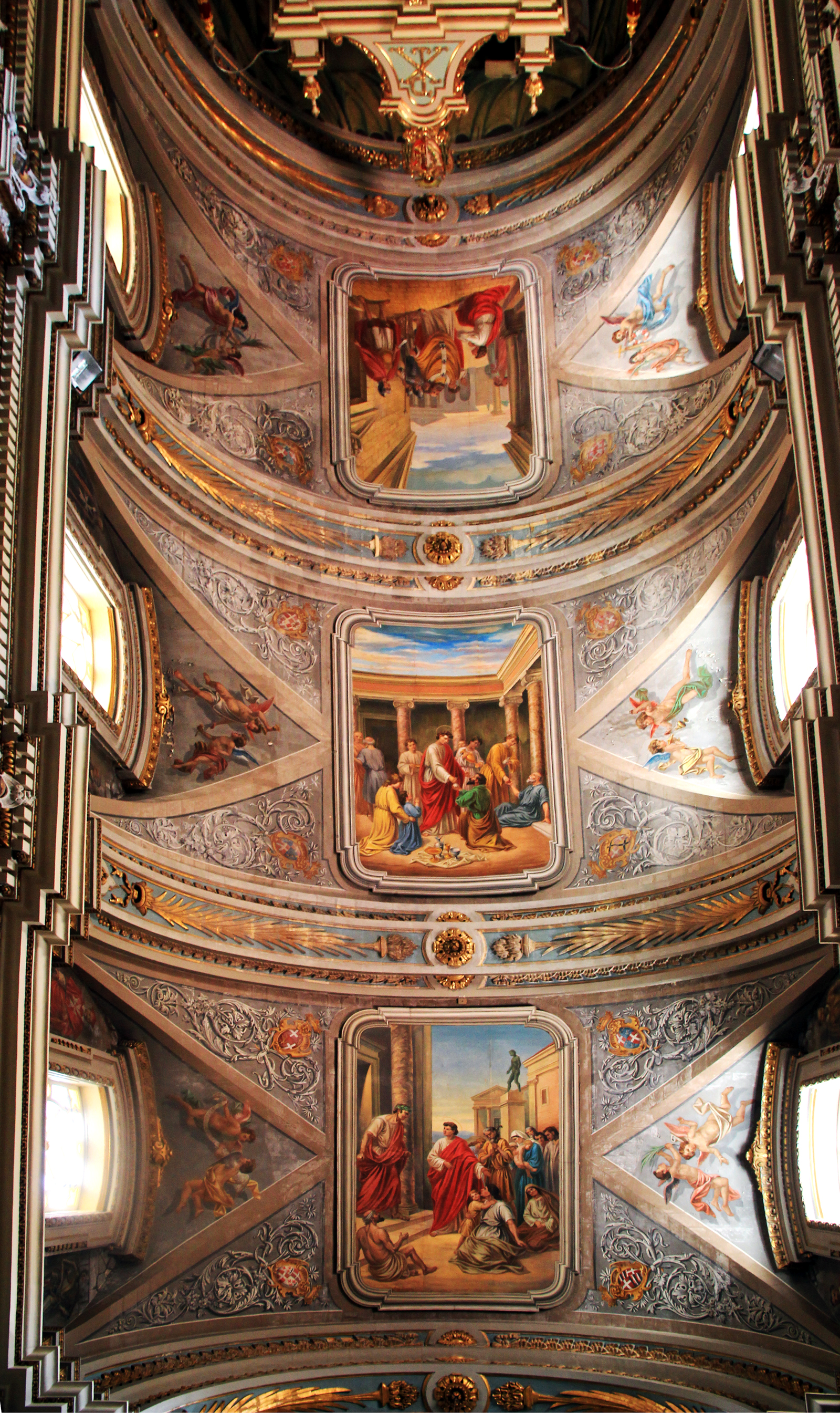 Ceiling of St. Lawrence's Church in the town Birgu, Malta